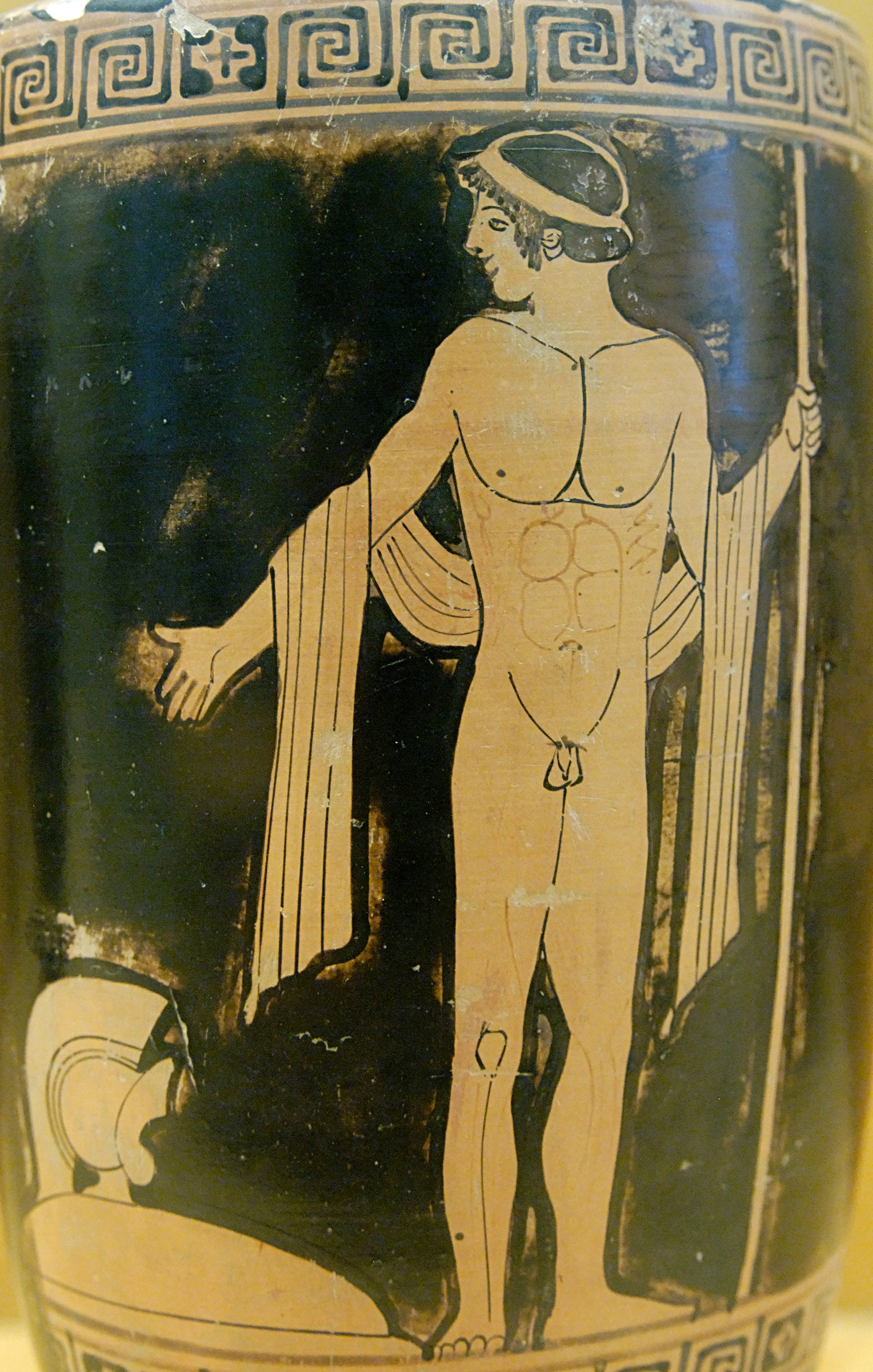 Ephebe; kalos inscription.